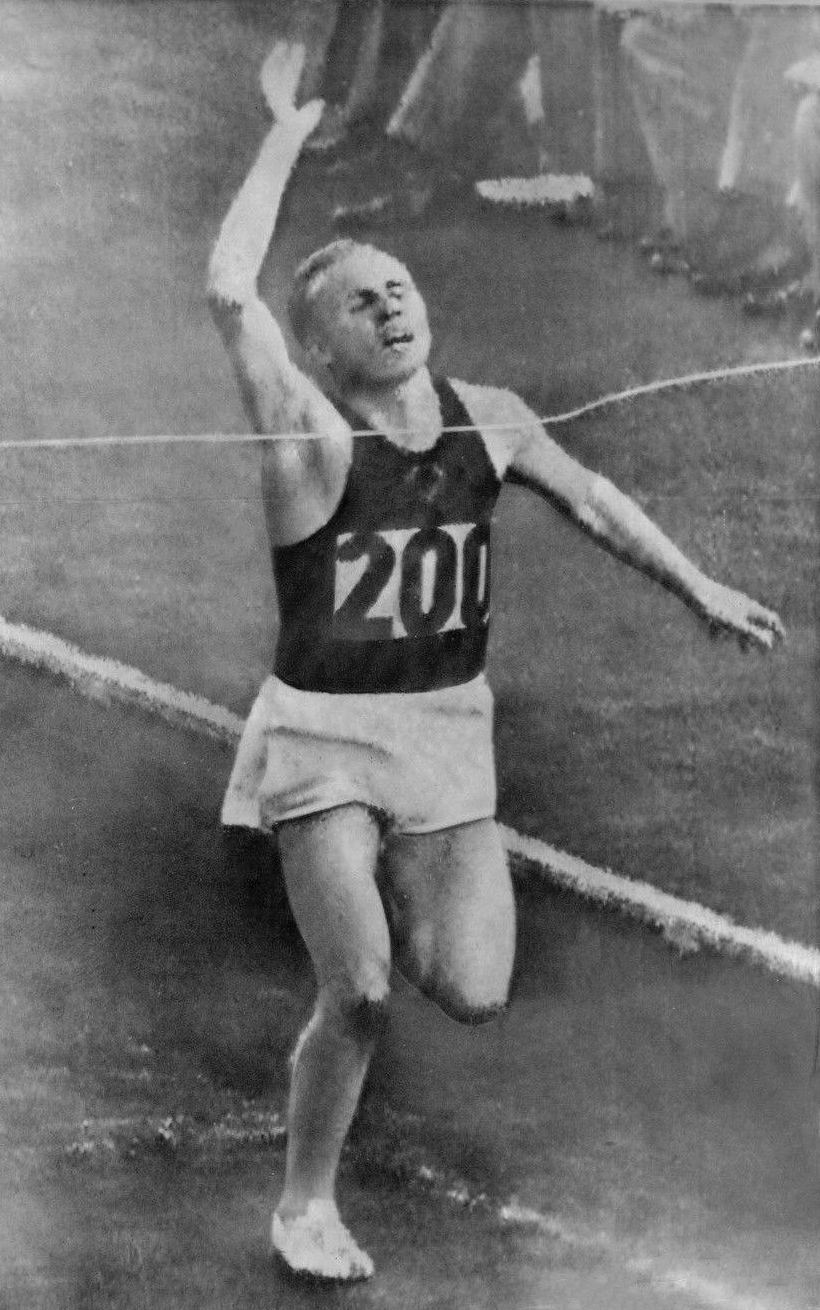 LG290 1956 Wire Photo VLADIMIR KOUTS Melbourne Russian Olympic Distance Runner